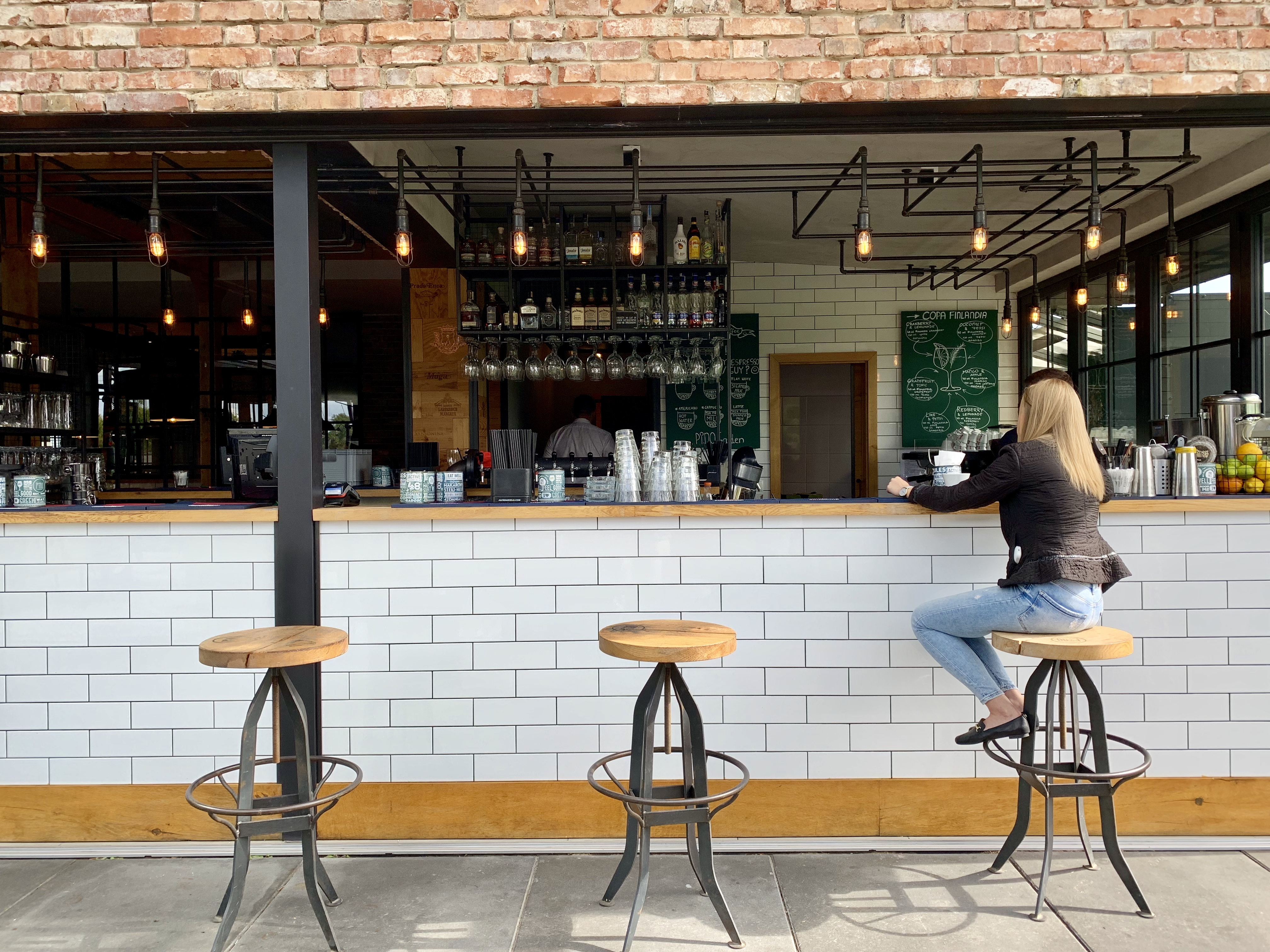 PINO Garden Restaurant, Kraków, Poland